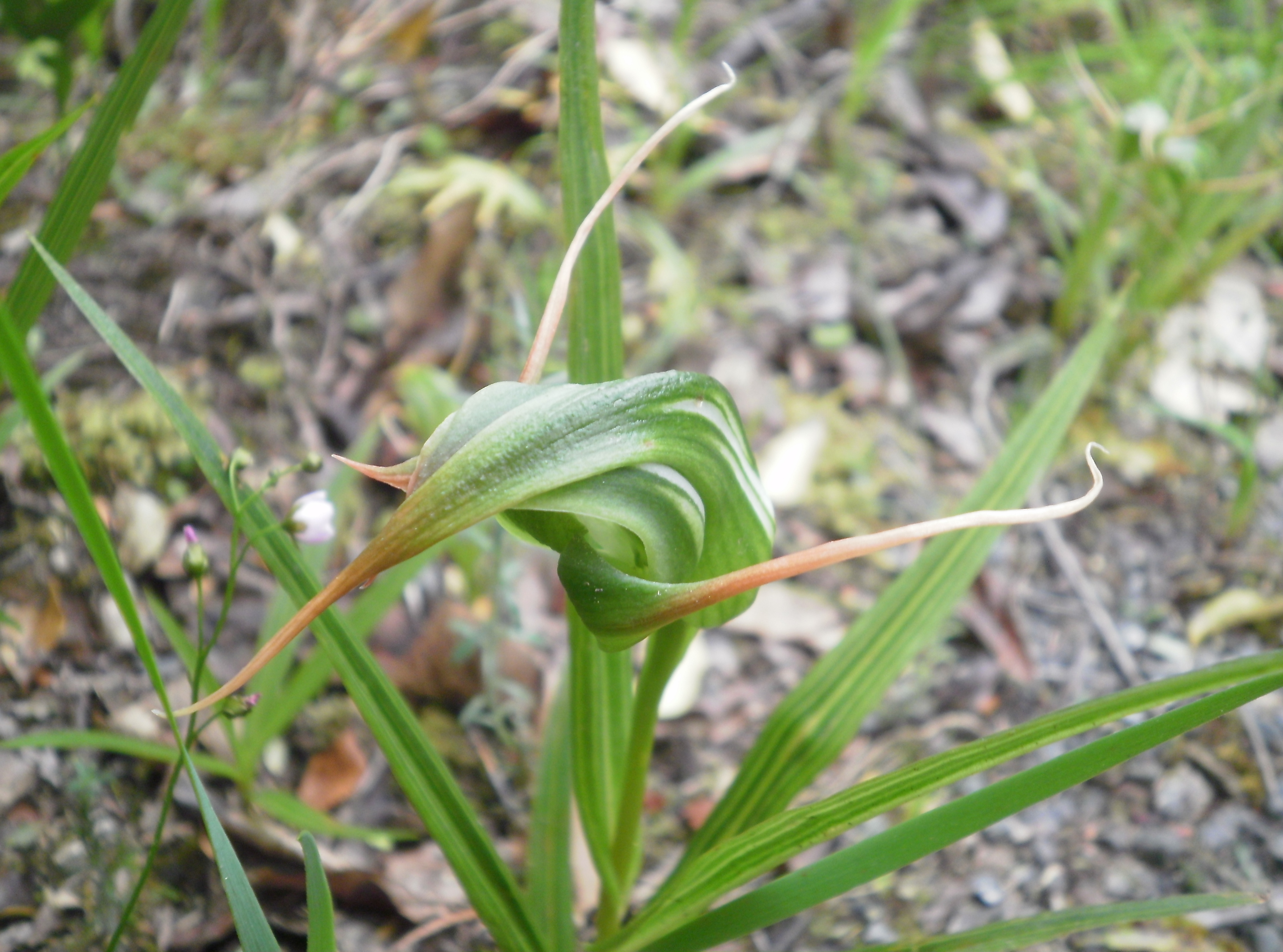 Pterostylis banksii, Tutukiwi, flowering in Ecclesfield Reserve, Upper Hutt, New Zealand.